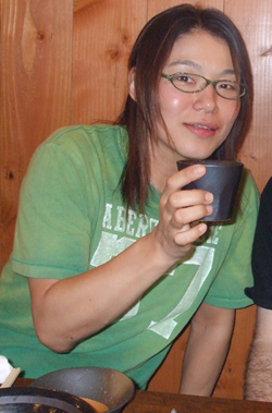 From a photo I took with Mariko Yoshida, Summer 2008 in Hamamatsu-cho Tokyo, Japan.